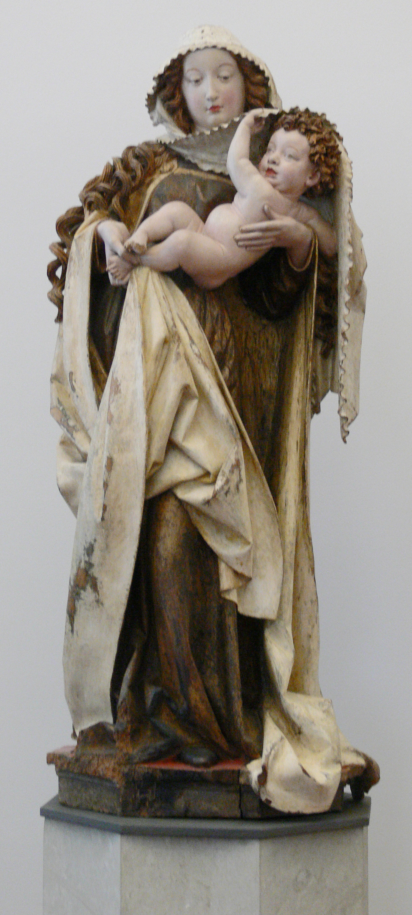 Niclas Gerhaert van Leyden († 1473): Madonna and Child (Dangolsheim Madonna); Strasbourg c. 1460/1465; height: 102 cm, walnutwood, remains of original colours; probably from the Carthusian church in Strasbourg. Skulpturensammlung (Inv. 7055, acquired in 1913), Bode-Museum Berlin.